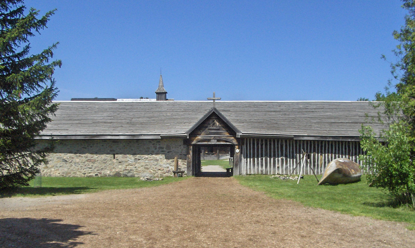 Main Entrance of Sainte Marie among the Hurons, Midland, Ontario, Canada